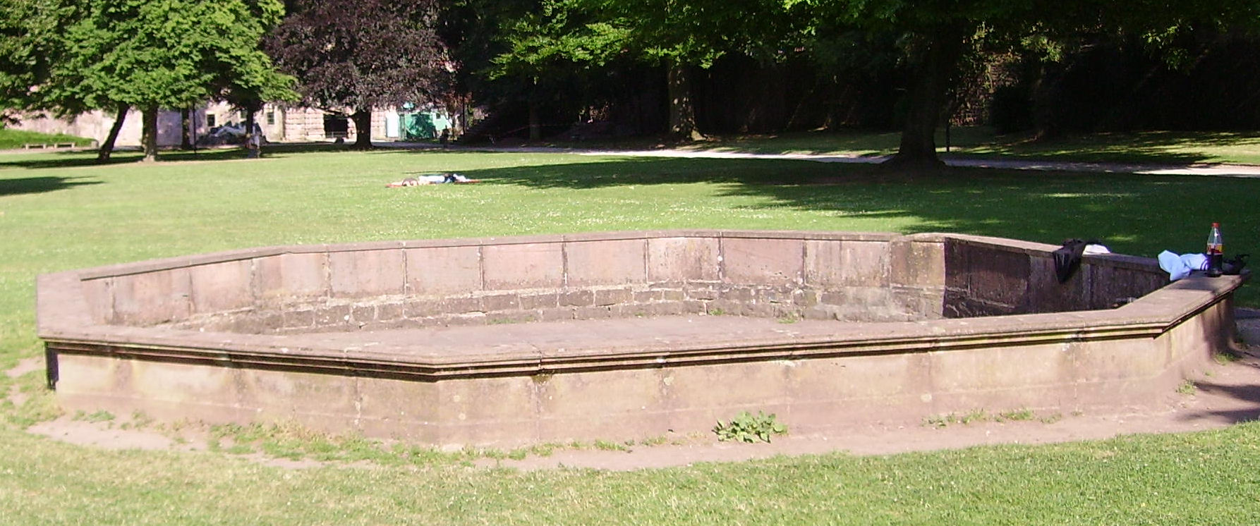 part of Heidelberg castle (Heidelberger Schloss)